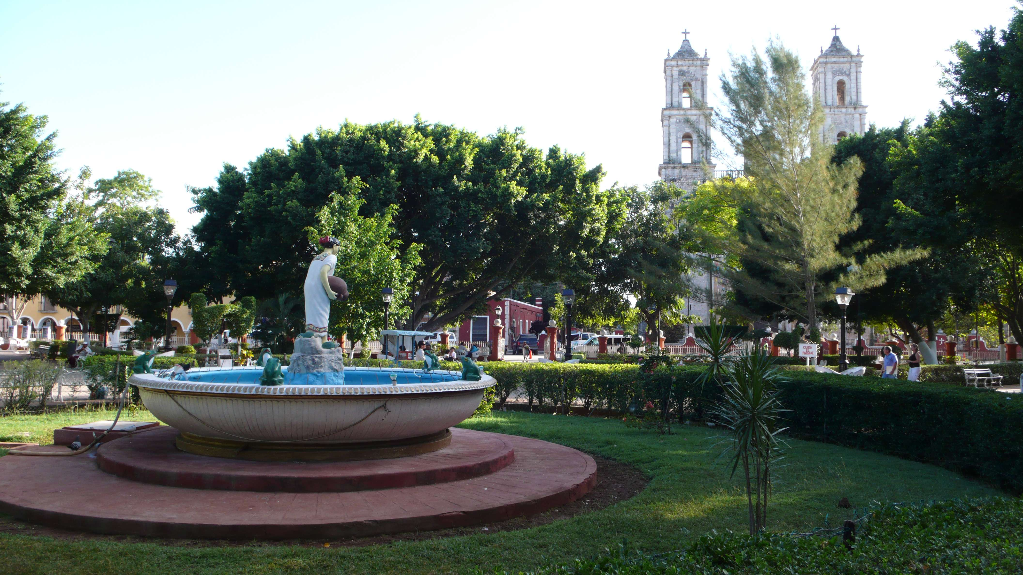 Valladolid (Yucatán), main square